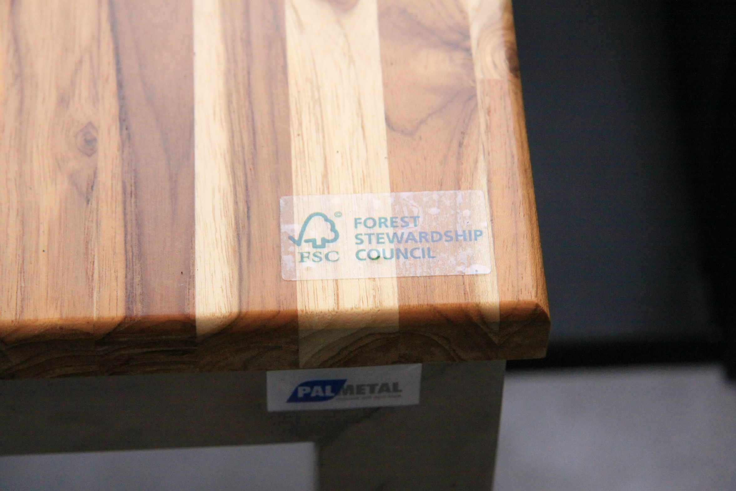 Stainless steel table with Teca FSC Wood made by Palmetal - Rio de Janeiro